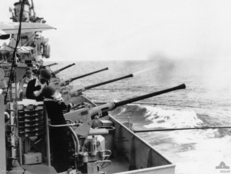 Some of HMAS Sydney's 40mm Bofors guns firing during practice while the ship was operating off Korea in 1951